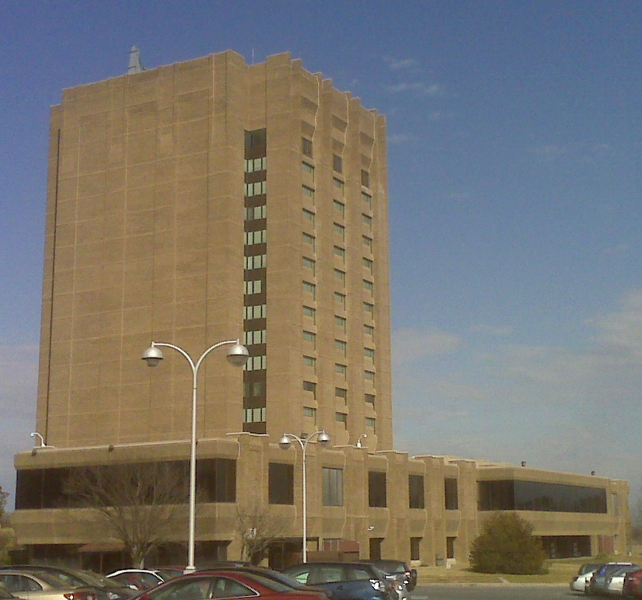 Exterior of the United States National Agricultural Library.